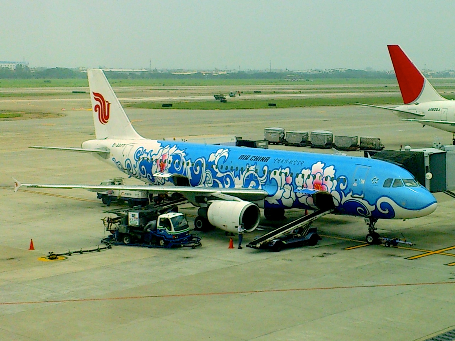 Air China Airbus A320-200